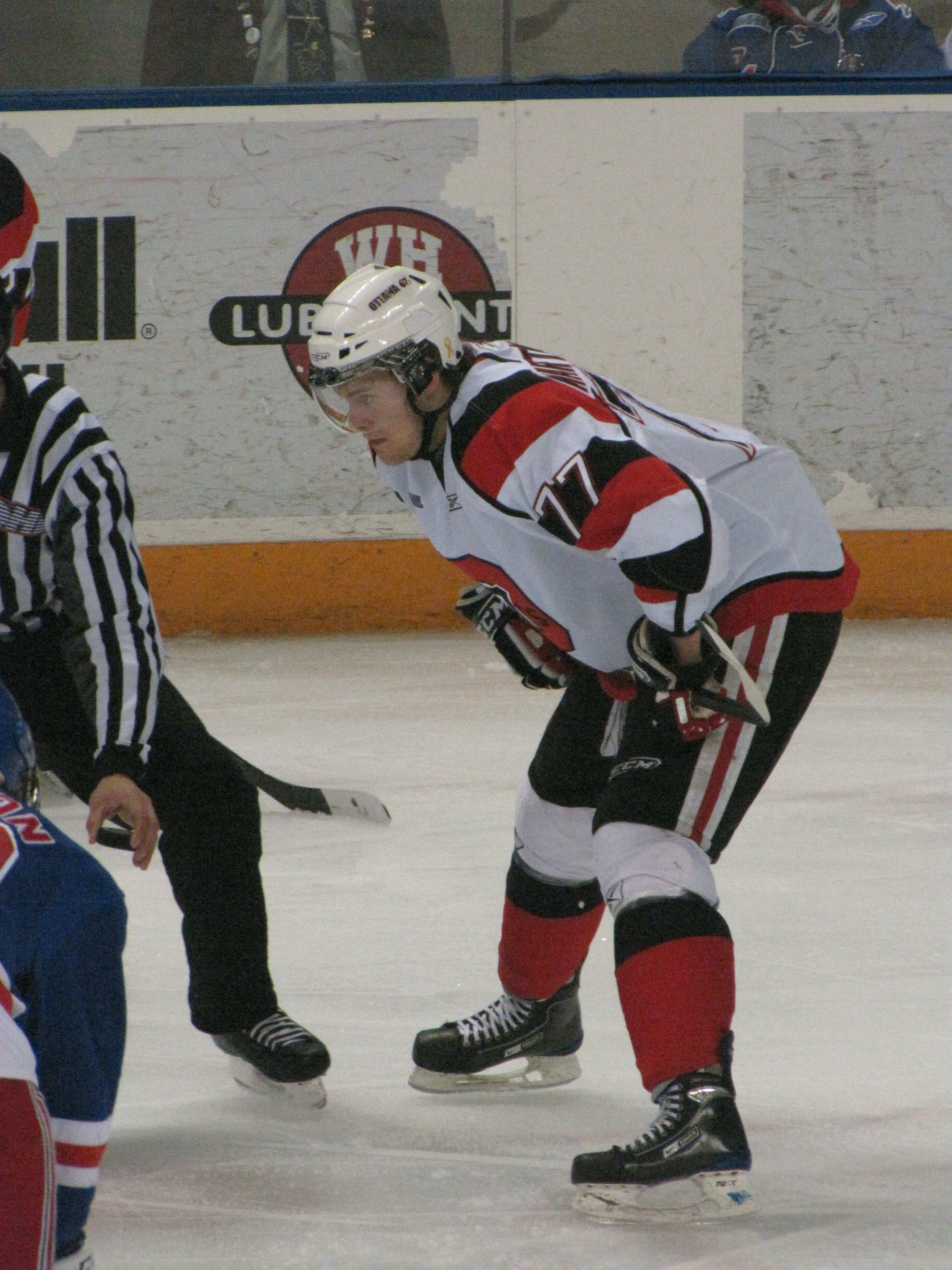 Ryan Martindale of the Ottawa 67's